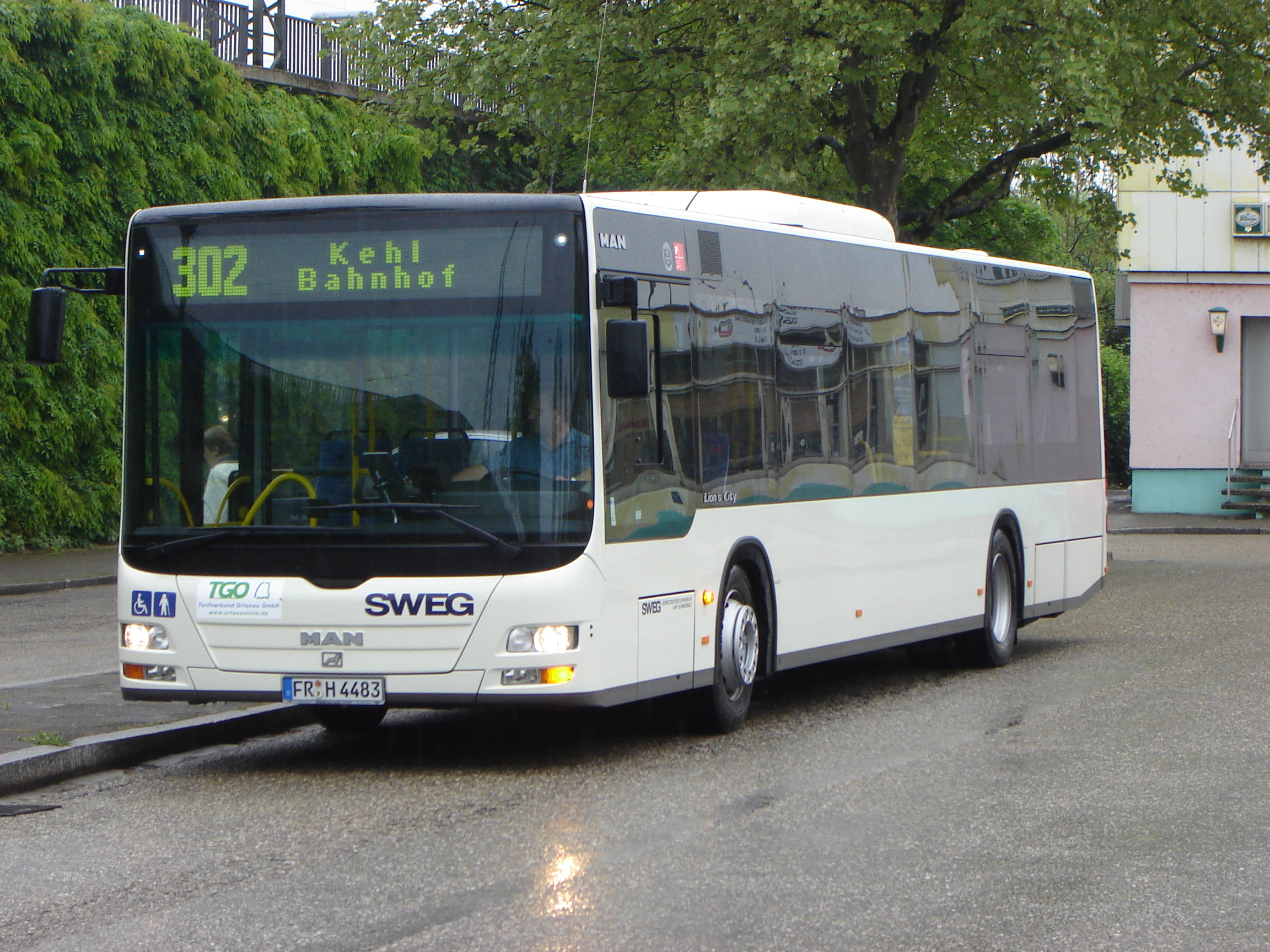 A german buses Man Lion's city in the city of Kehl